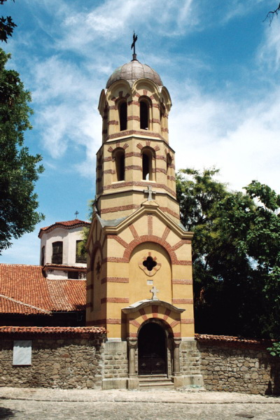 St. Nedelya Church Plovdiv, Bulgaria